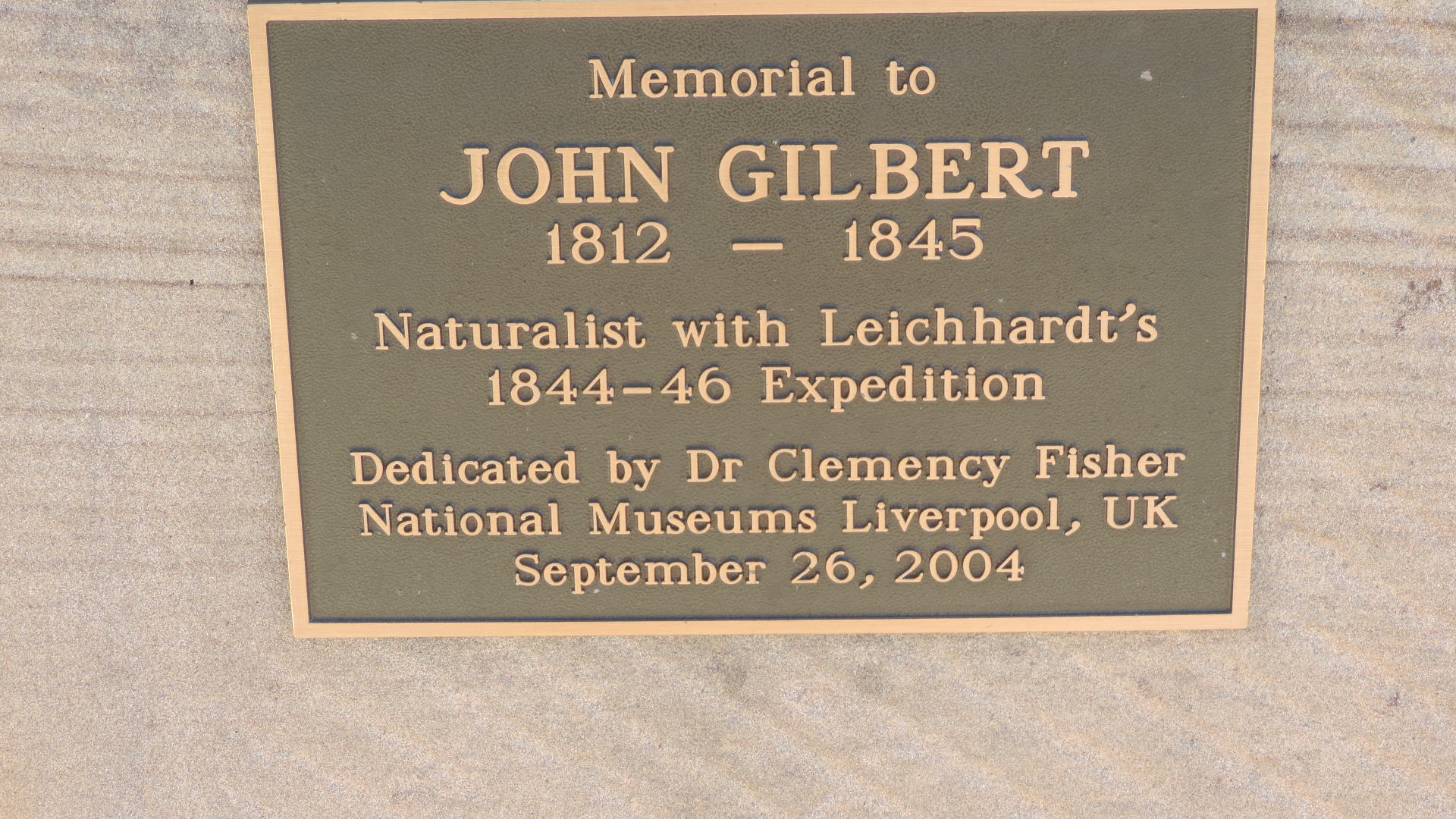 Plaque on memorial to John Gilbert, Gilbert's Lookout, Taroom, 2014. John Gilbert was a naturalist on Ludwig Leichhardt's 1844 expedition